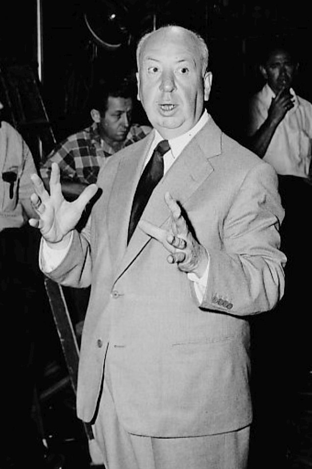 Photo of Alfred Hitchcock on the set of his new television program, Alfred Hitchcock Presents.